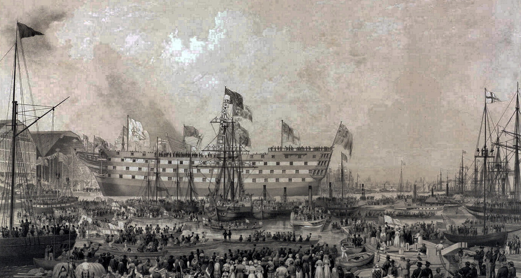 View of the Royal Dockyard, Woolwich during the launching ceremony of the 'Trafalgar' ship attended by Queen Victoria on 21 June 1841. Lithograph by Day & Haghe after a drawing by William Ranwell, published by Ackermann & Co.(1842). Collection of the London Metropolitan Archives.